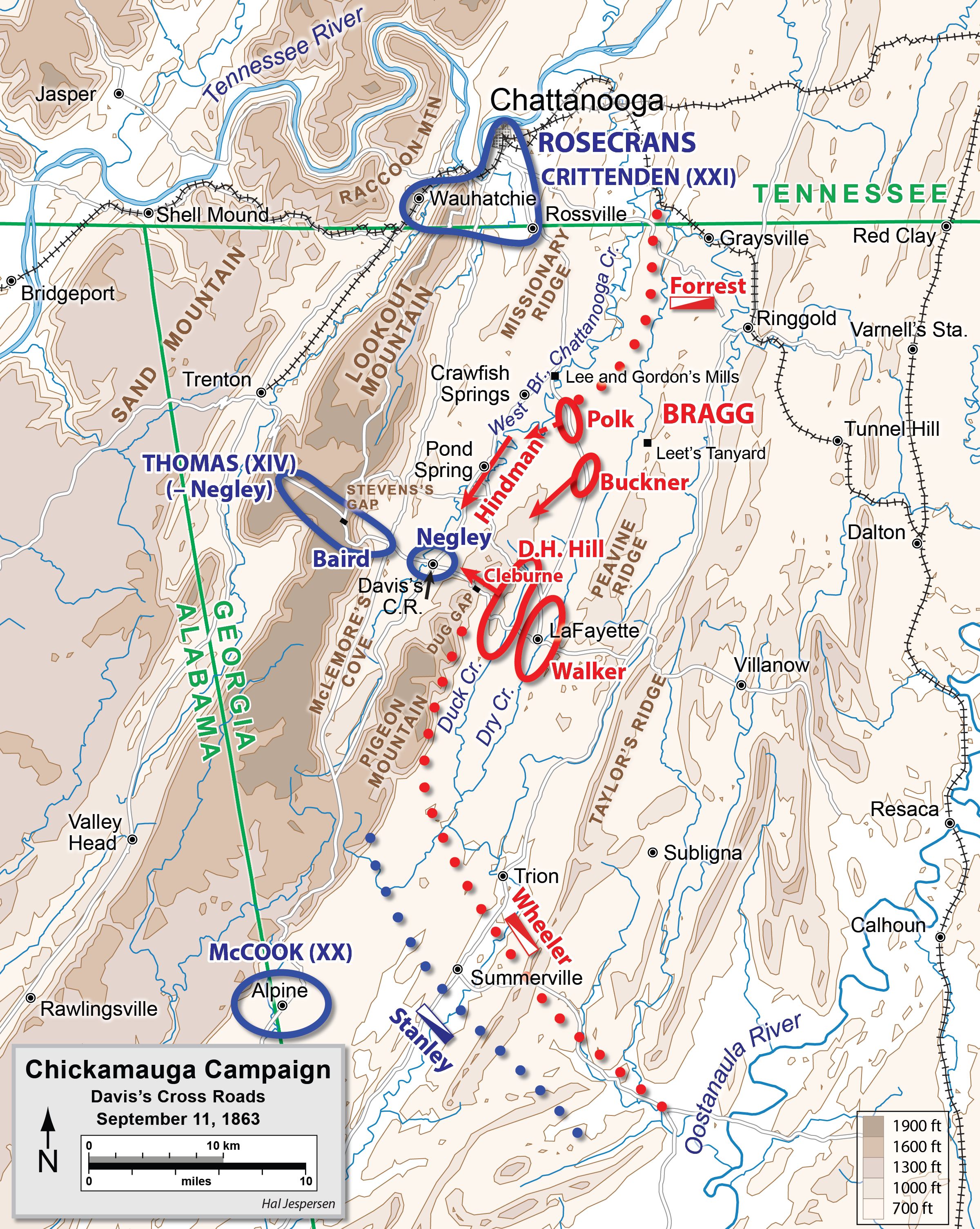 Map of Battle of Davis's Cross Roads of the American Civil War. Drawn in Adobe Illustrator CS5 by Hal Jespersen. Graphic source file is available at